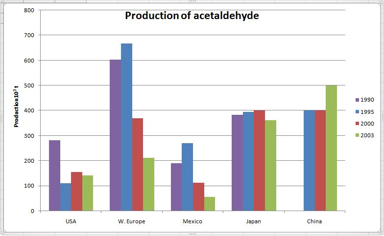 Production Of Acetaldehyde through different years in different countries